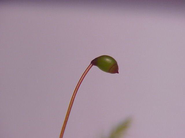 Species: Rhytidiadelphus loreus Family: ' Image No. 3